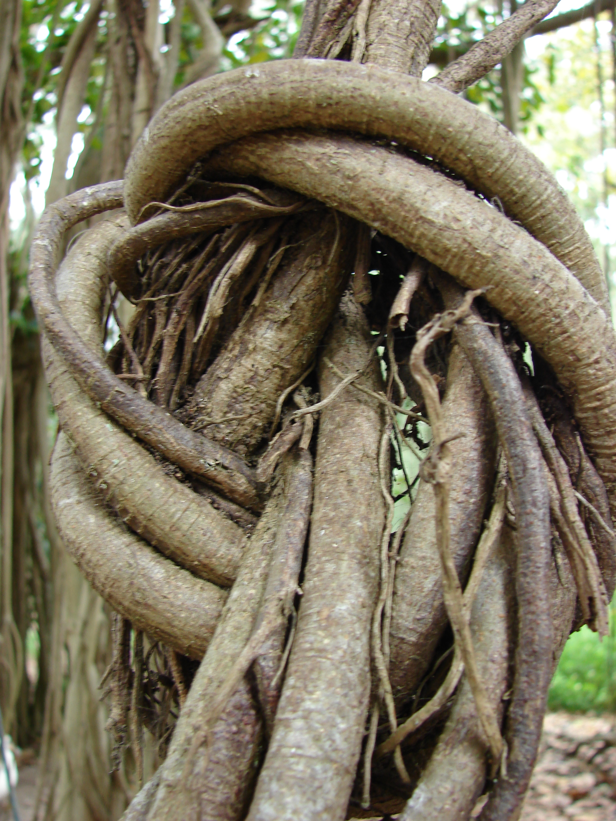 Ficus benghalensis (aerial roots in knot). Location: Midway Atoll, Cable Company buildings Sand Island